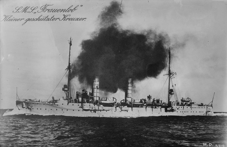 The German Imperial Navy Gazelle-class cruiser SMS Frauenlob.